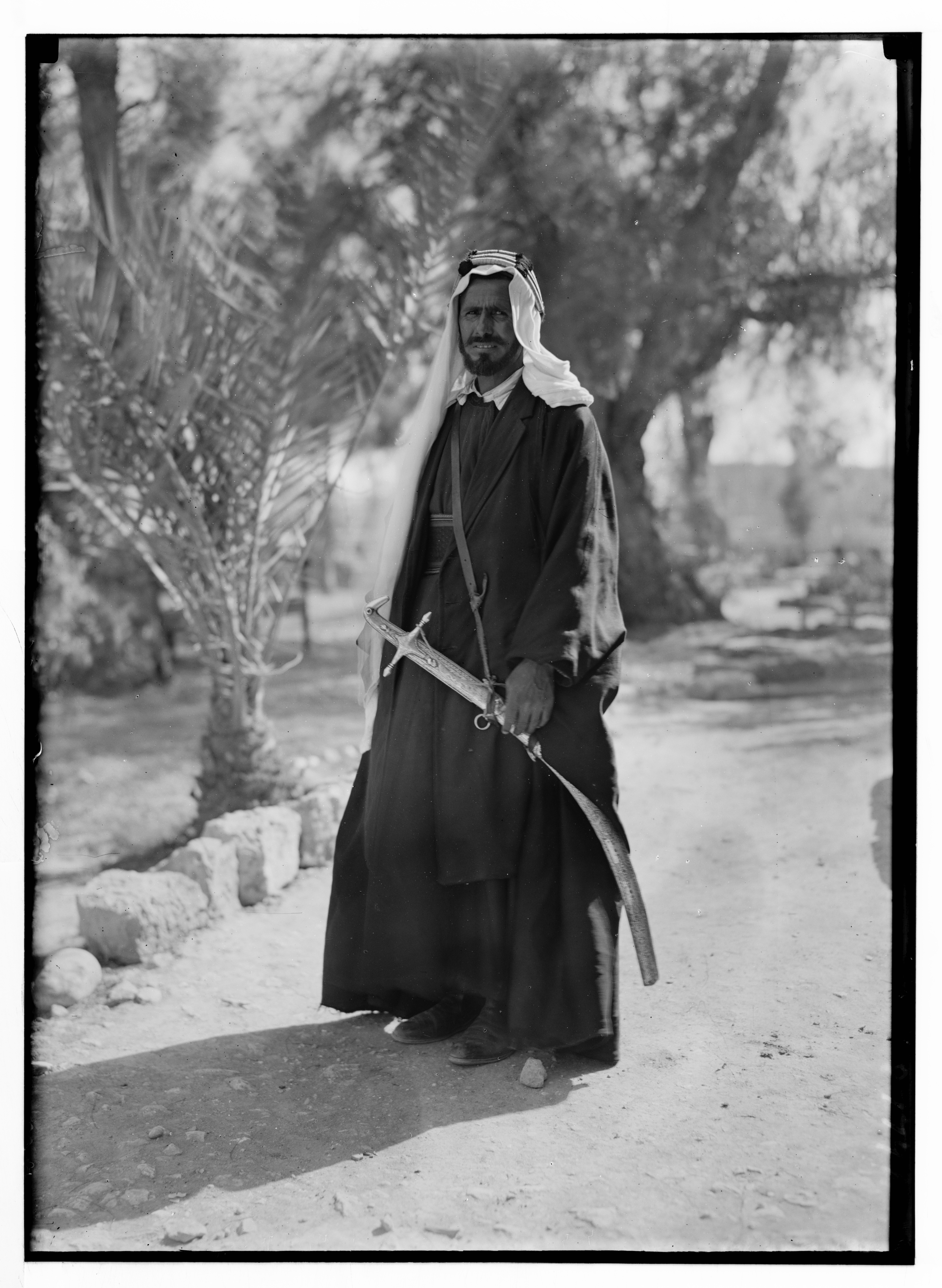 Bedoin sheikh with sword Palestine.